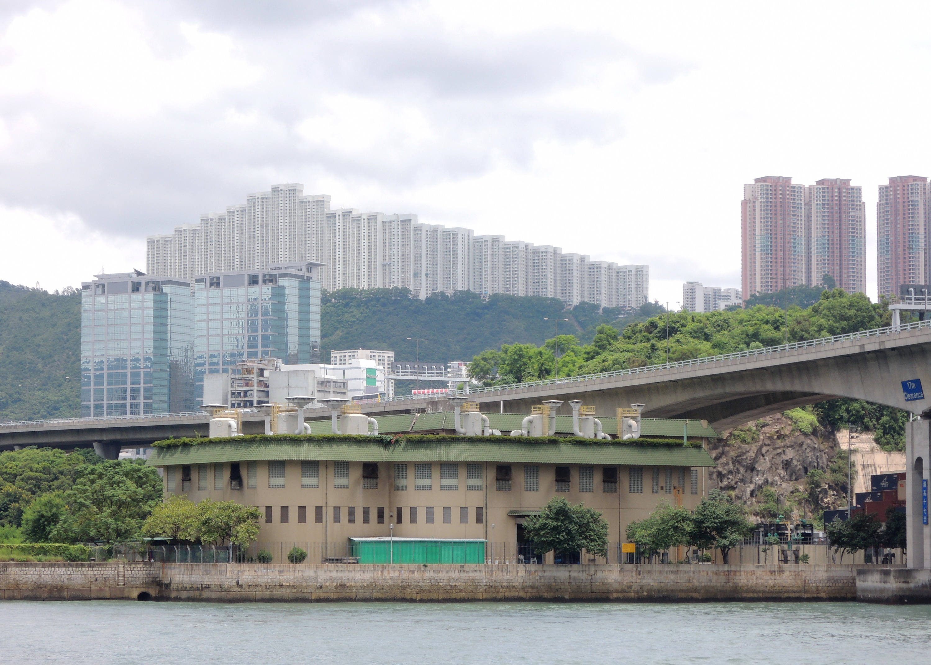 Drainage Services Department Kwai Chung Preliminary Treatment Works, Hong Kong.